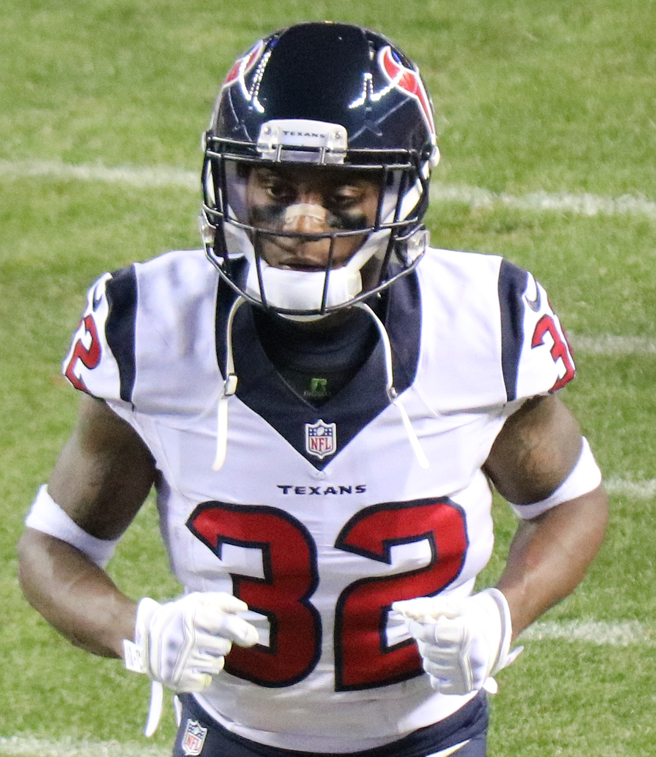 Robert Nelson, a player on the National Football League.